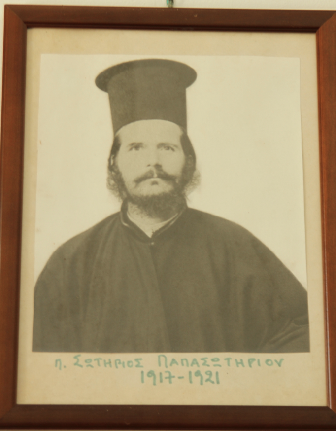 Παπασωτηρίου